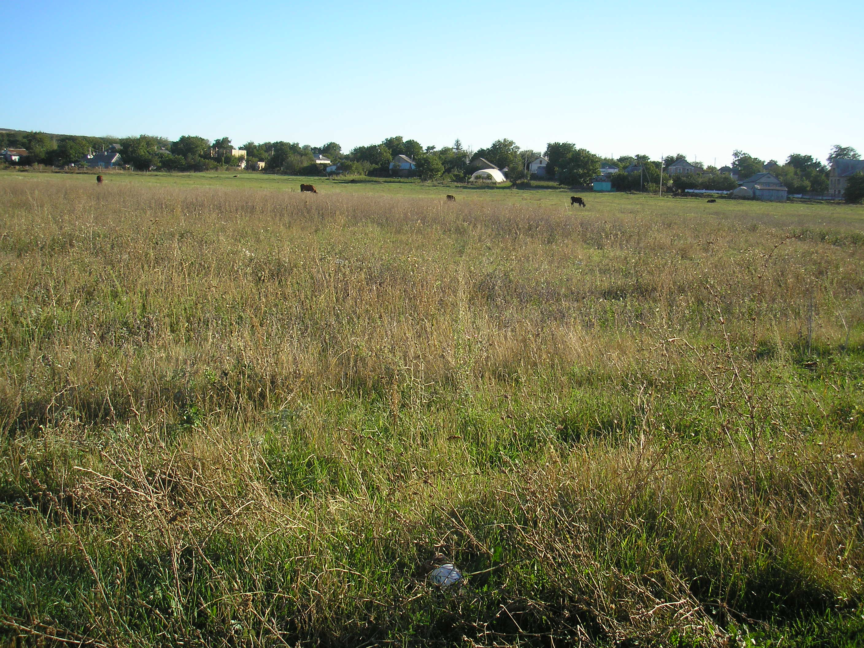 Village Konstantinovka, Simferopol district, Crimea